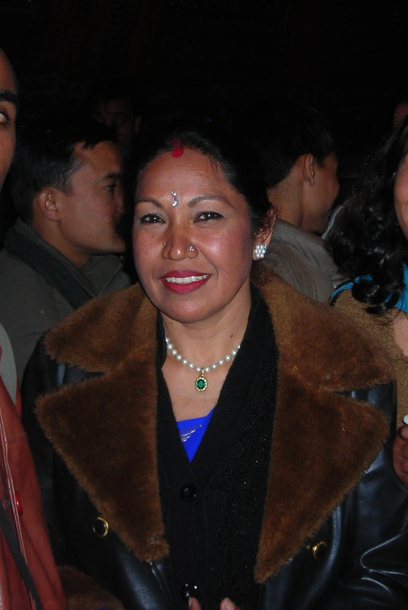 Rama Thapaliya in a program in Kathmandu in 2007.